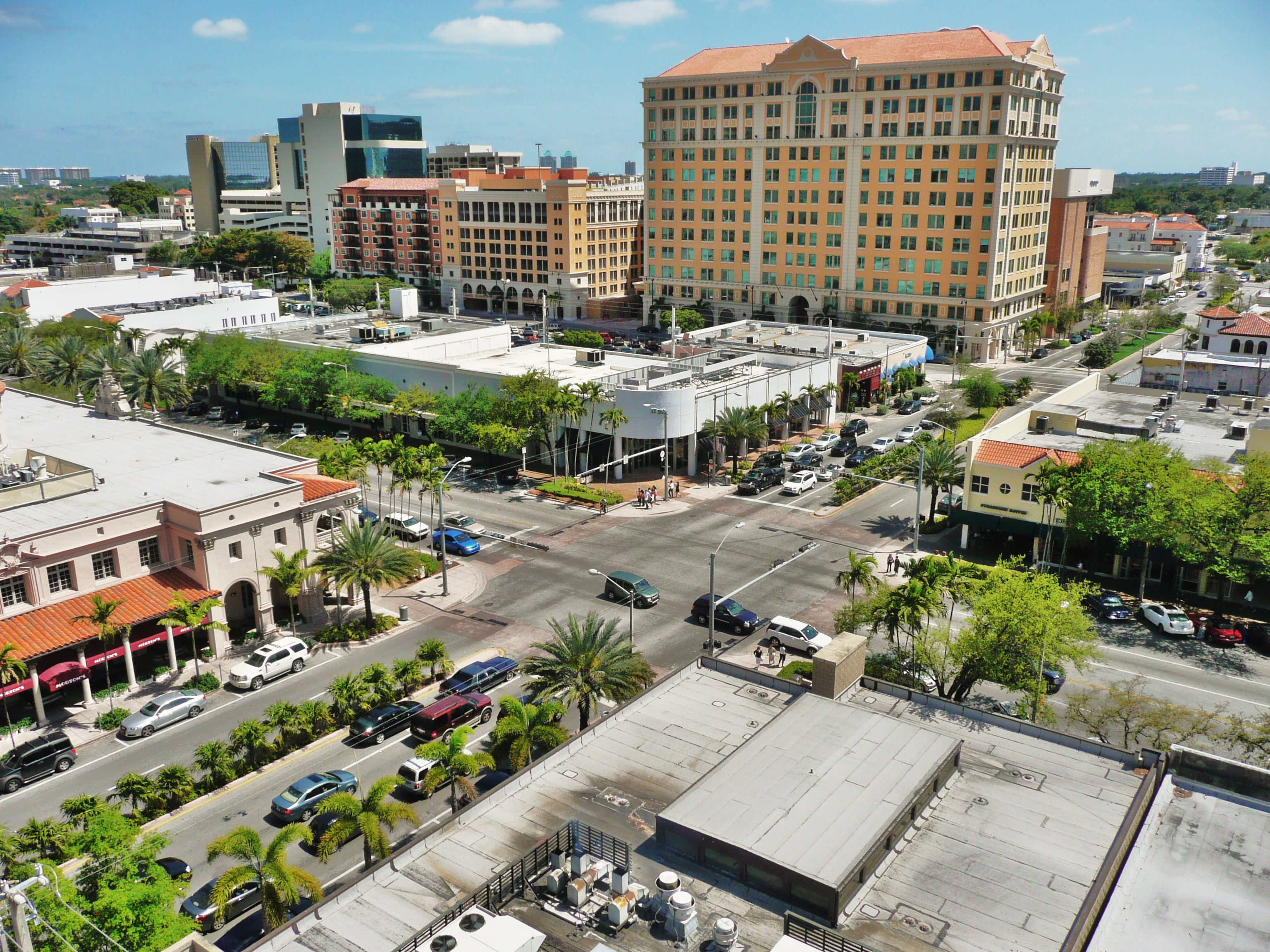 Digital photo taken by Marc Averette. Miracle Mile in Downtown Coral Gables, Florida, United States.